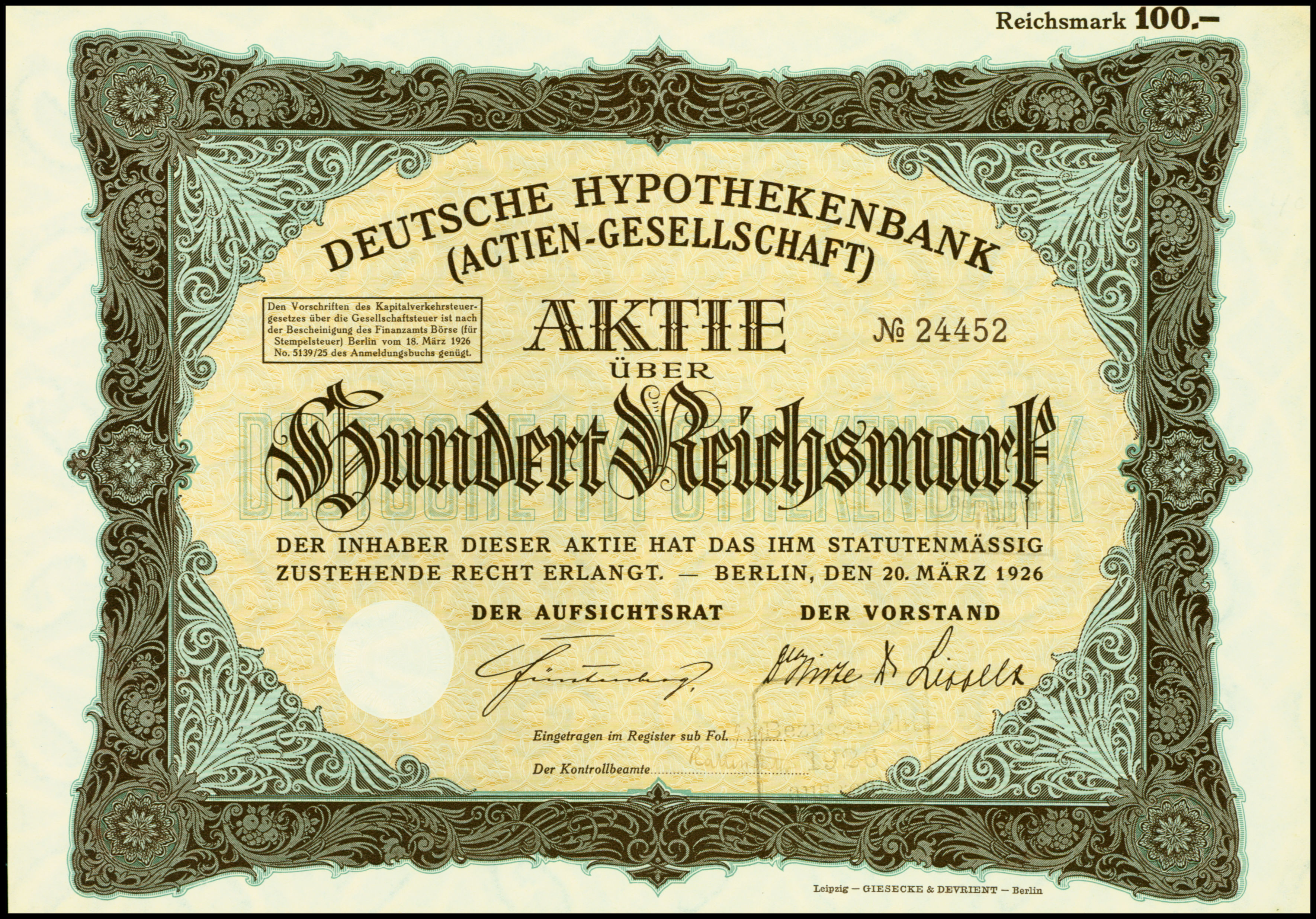 Share of the Deutsche Hypothekenbank (AG), issued 20. March 1926